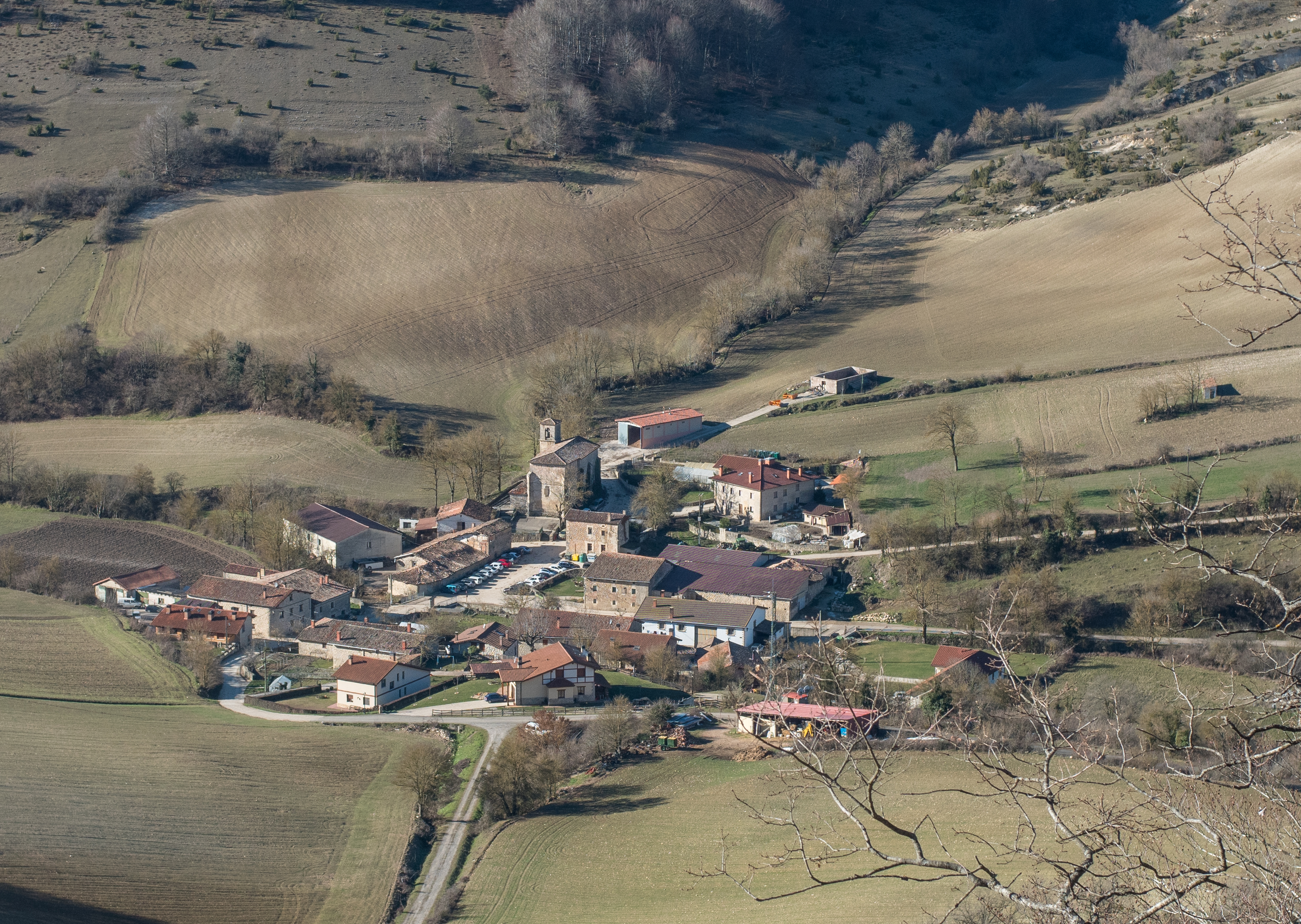 View of Okina. Álava, Basque Country, Spain